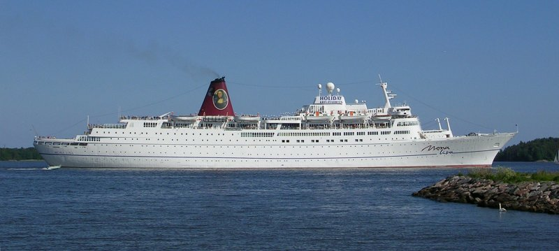 M/S Mona Lisa departing Helsinki. Information about Mona Lisa may be found at IMO 6512354.A ship can change name and flag state through time, but the IMO number remains the same through the hull's entire lifetime. As a result, it can be useful to identify a ship by using the IMO number.